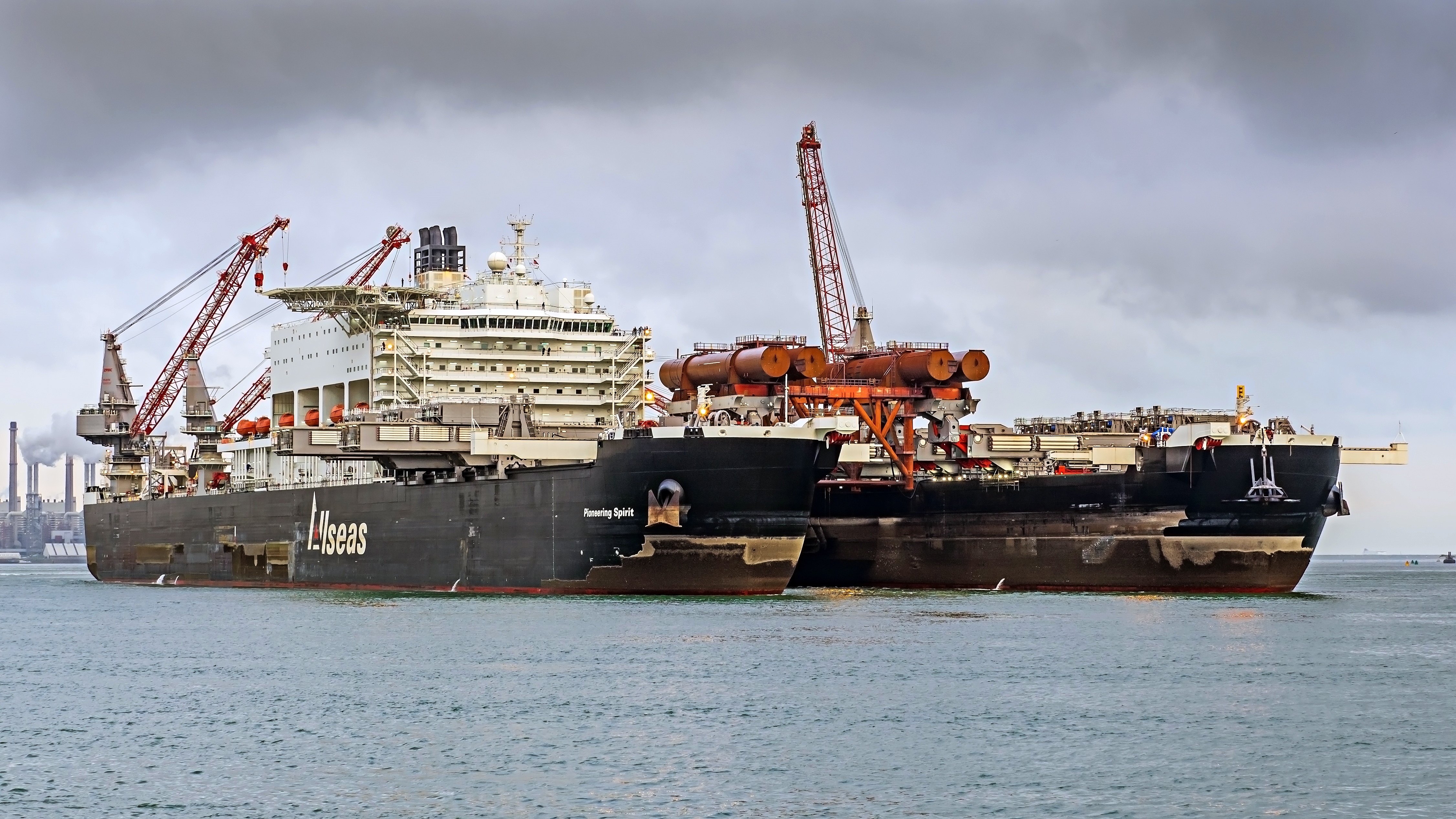 Crane ship Pioneering Spirit, Maasvlakte 2, Rotterdam.